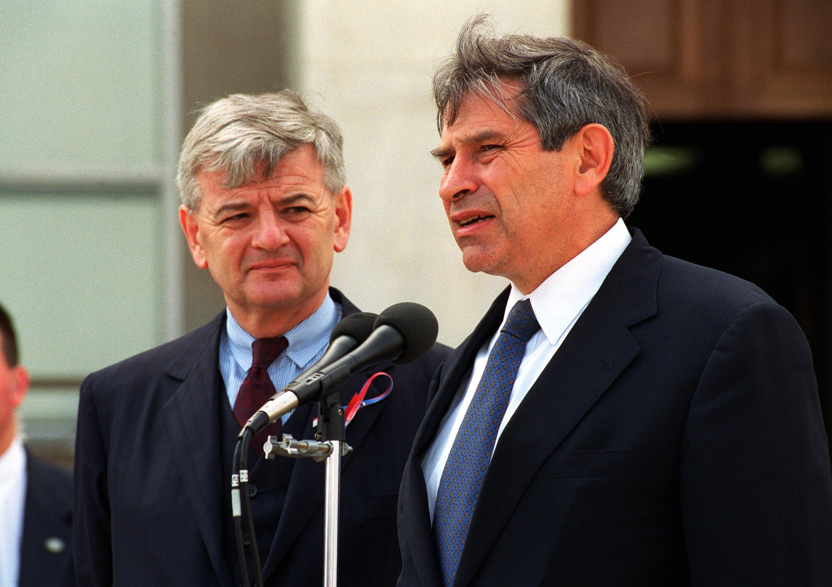 Deputy Secretary of Defense Paul Wolfowitz (right) responds to a reporter's question during a joint media availability with German Foreign Minister Joschka Fischer (left) at the Pentagon, on Sept. 19, 2001. Fischer met earlier with Wolfowitz to hear his assessment of the Sept. 11th terrorist attacks on the United States and to discuss the planned war on terrorism being advocated by President George W. Bush. DoD photo by R. D. Ward. 010919-D-9880W-049